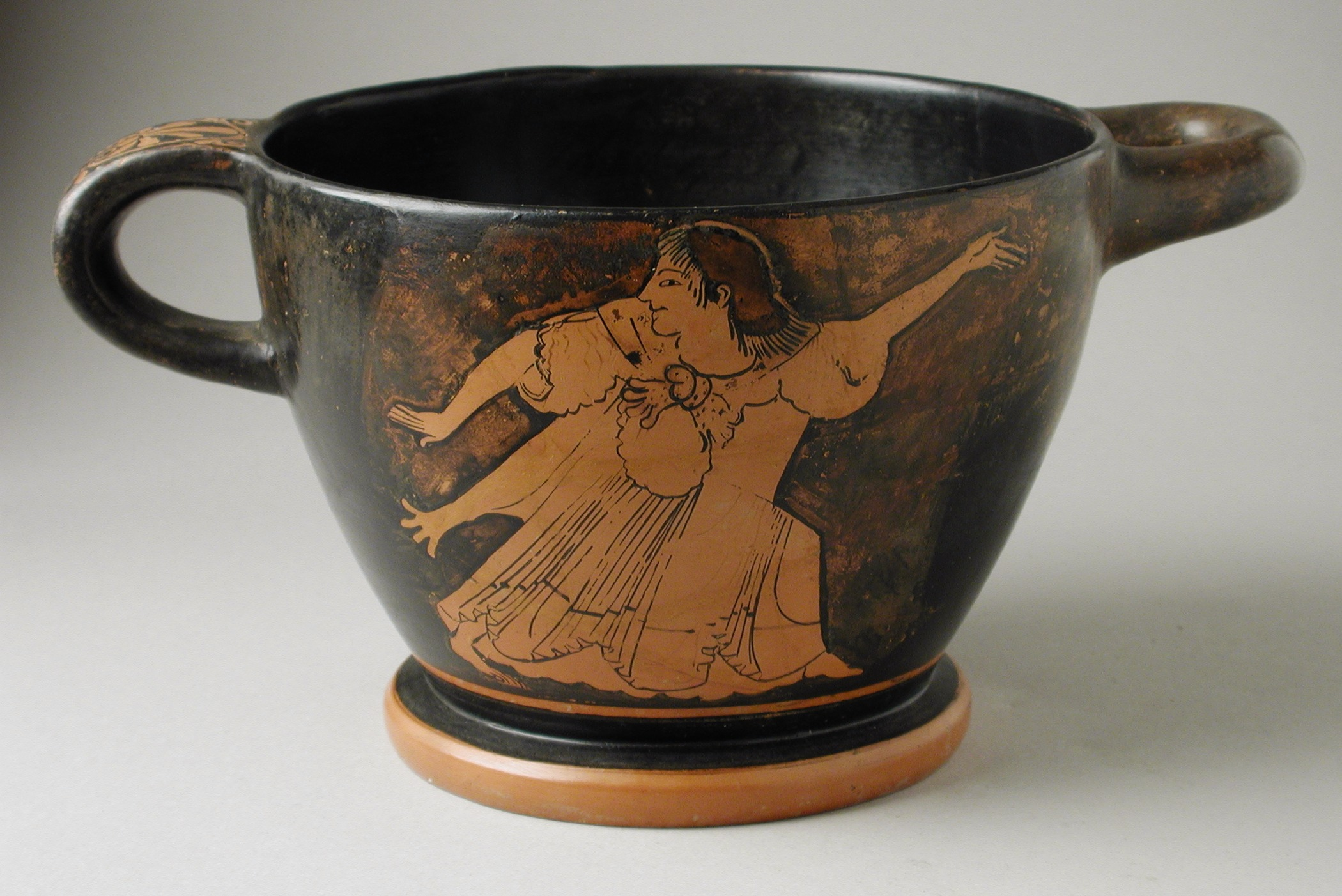 Greece, Athens, early 5th century B.C. Furnishings; Serviceware Ceramic Diameter including handles: 7 11/16 in. (19.5 cm); Diameter excluding handles: 5 1/2 in. (13.9 cm) Gift of Varya and Hans Cohn (AC1992.152.4) Greek, Roman and Etruscan Art